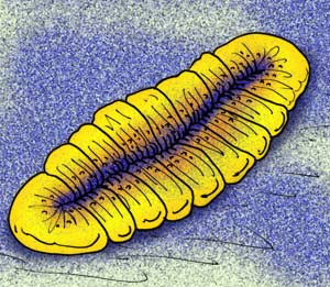 Reconstruction of the proarticulatan Windermeria aitkeni of Precambrian Canada